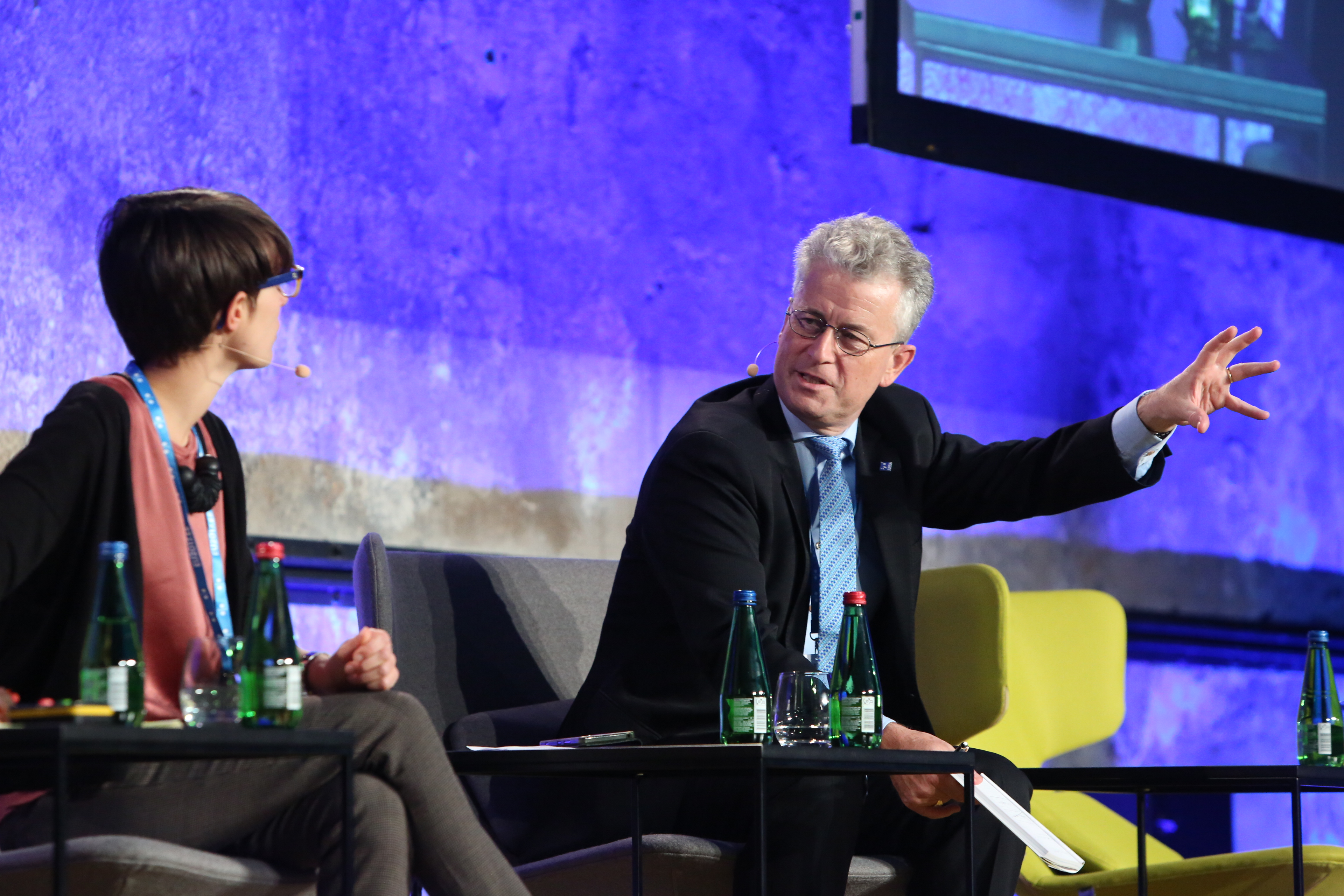 (l-r) Francesca Cattarin, Health Policy Officer at BEUC European Consumer Organisation; Robert Madelin, Chairman, Fipra International Photo: Annika Haas (EU2017EE)